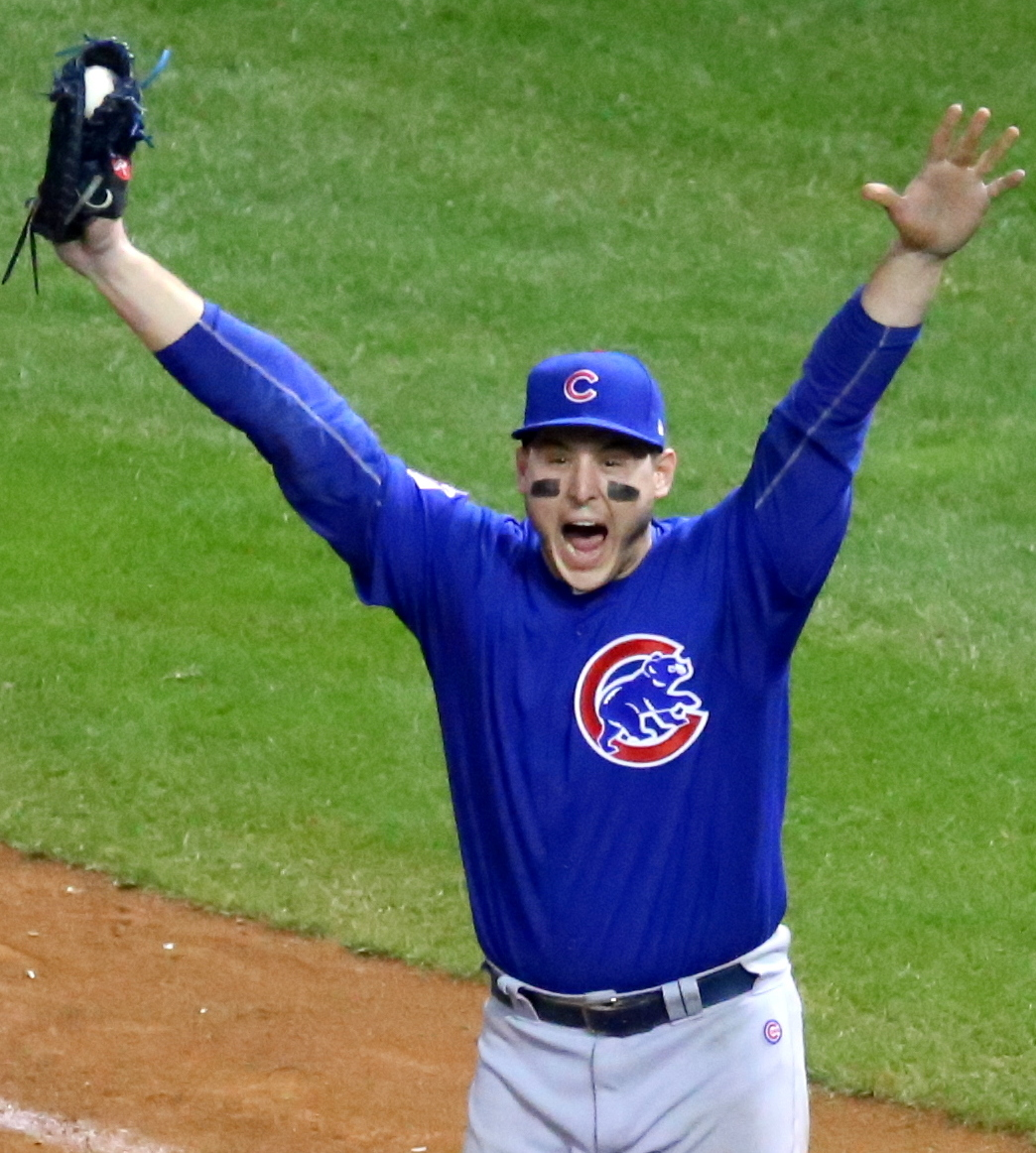 Cubs first baseman Anthony Rizzo celebrates the final out of the 2016 World Series.